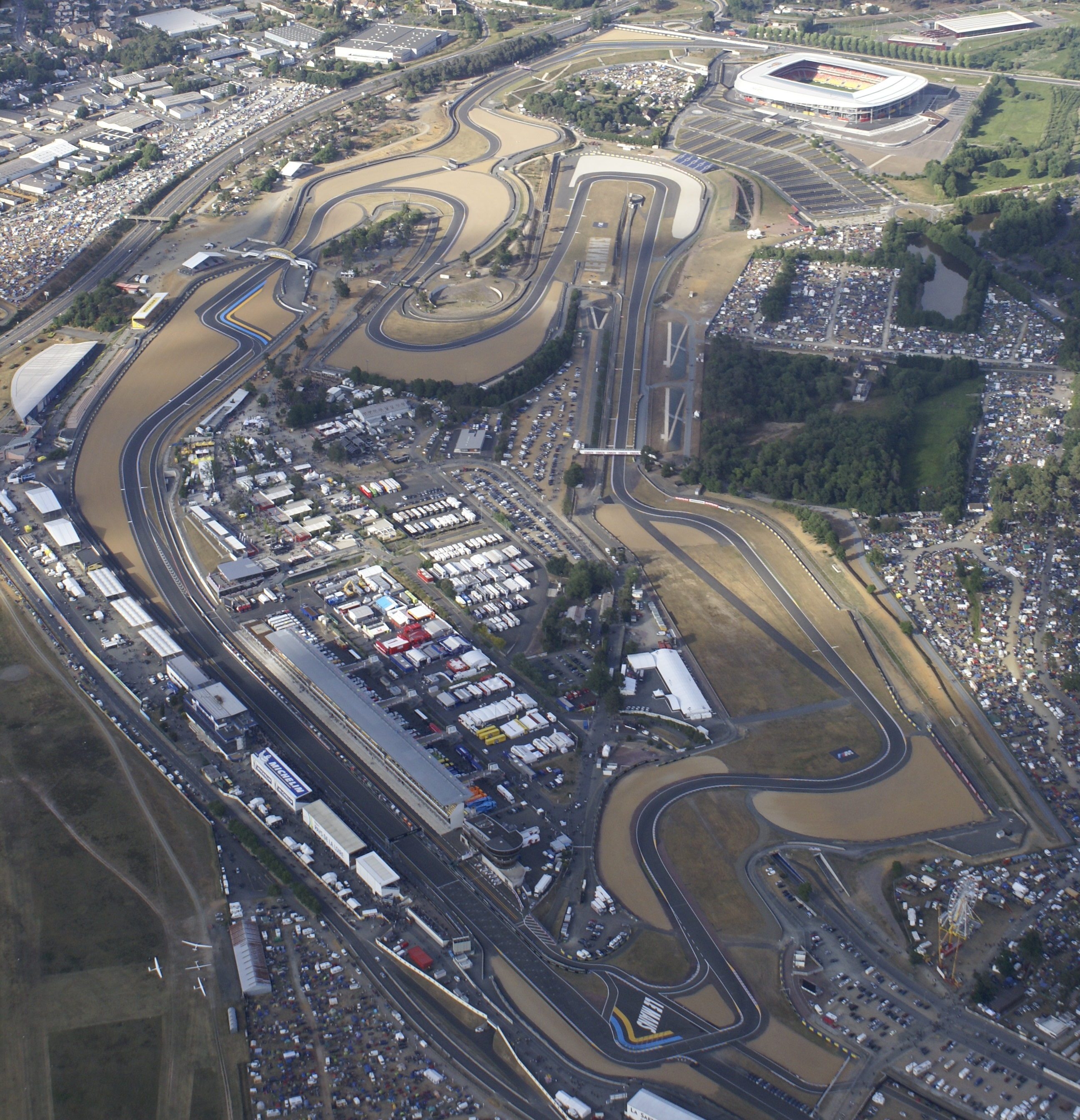 Aerial view of Bugatti Circuit